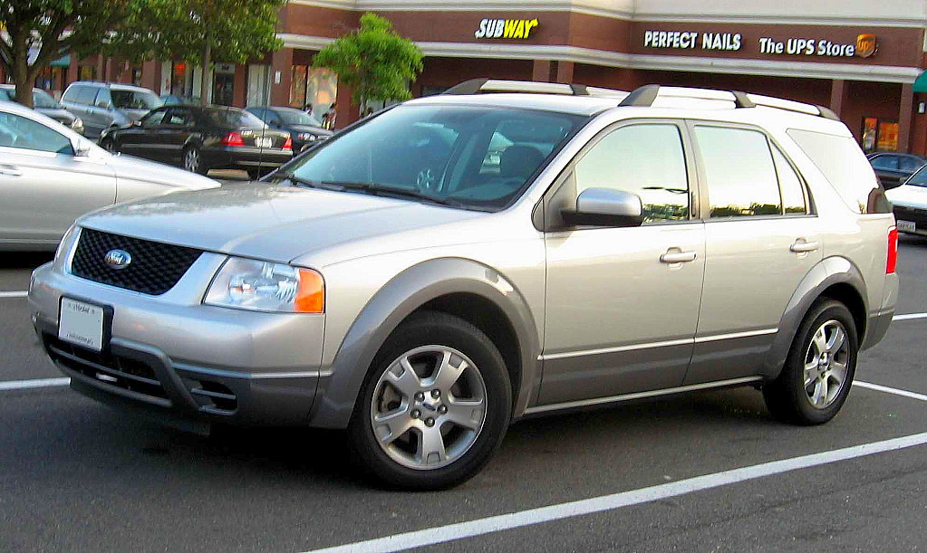 2005-2007 Ford Freestyle photographed in USA.